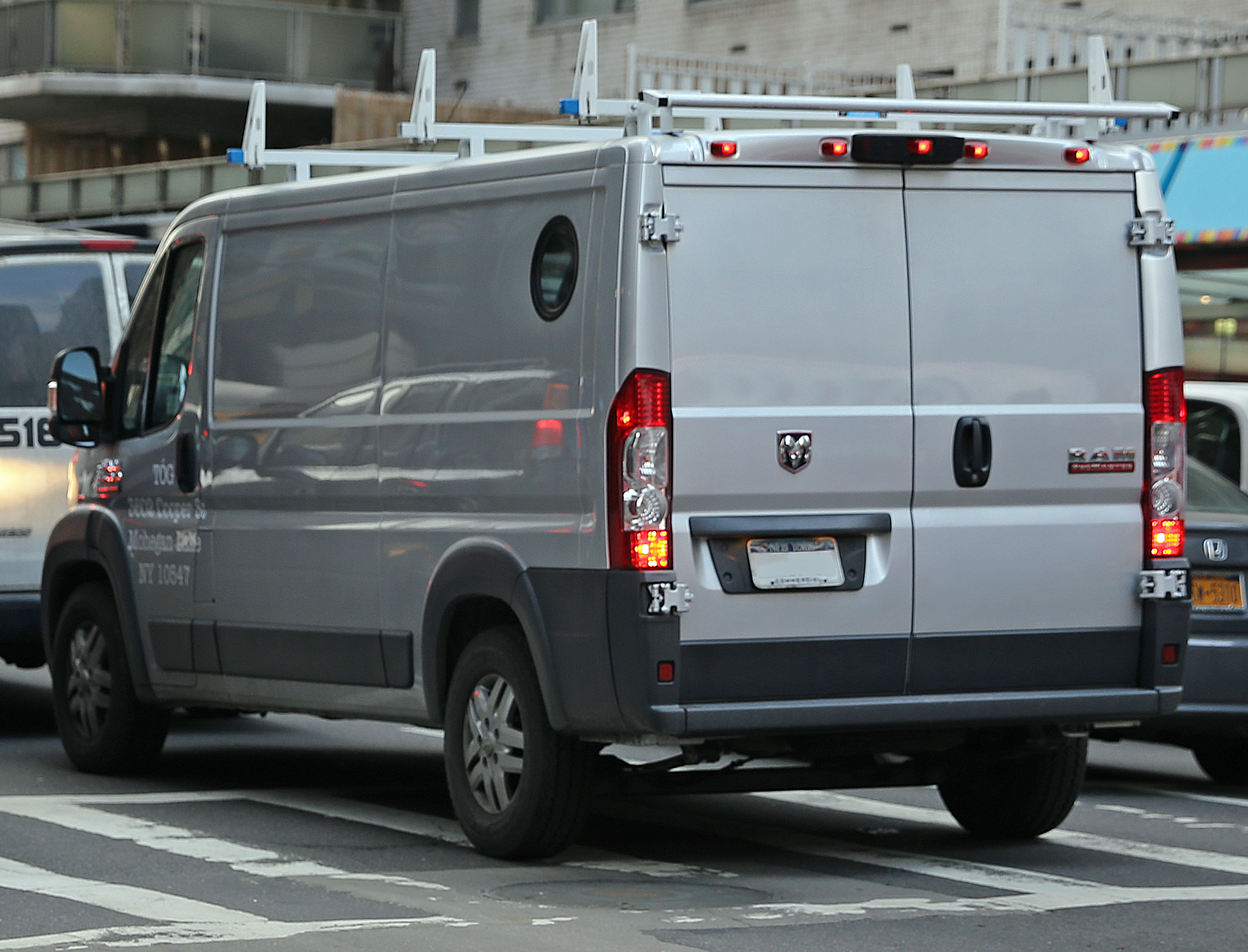 2014 Ram ProMaster in NYC, a US/Canada version of the Fiat Ducato which finally replaces the earlier Sprinter vans.